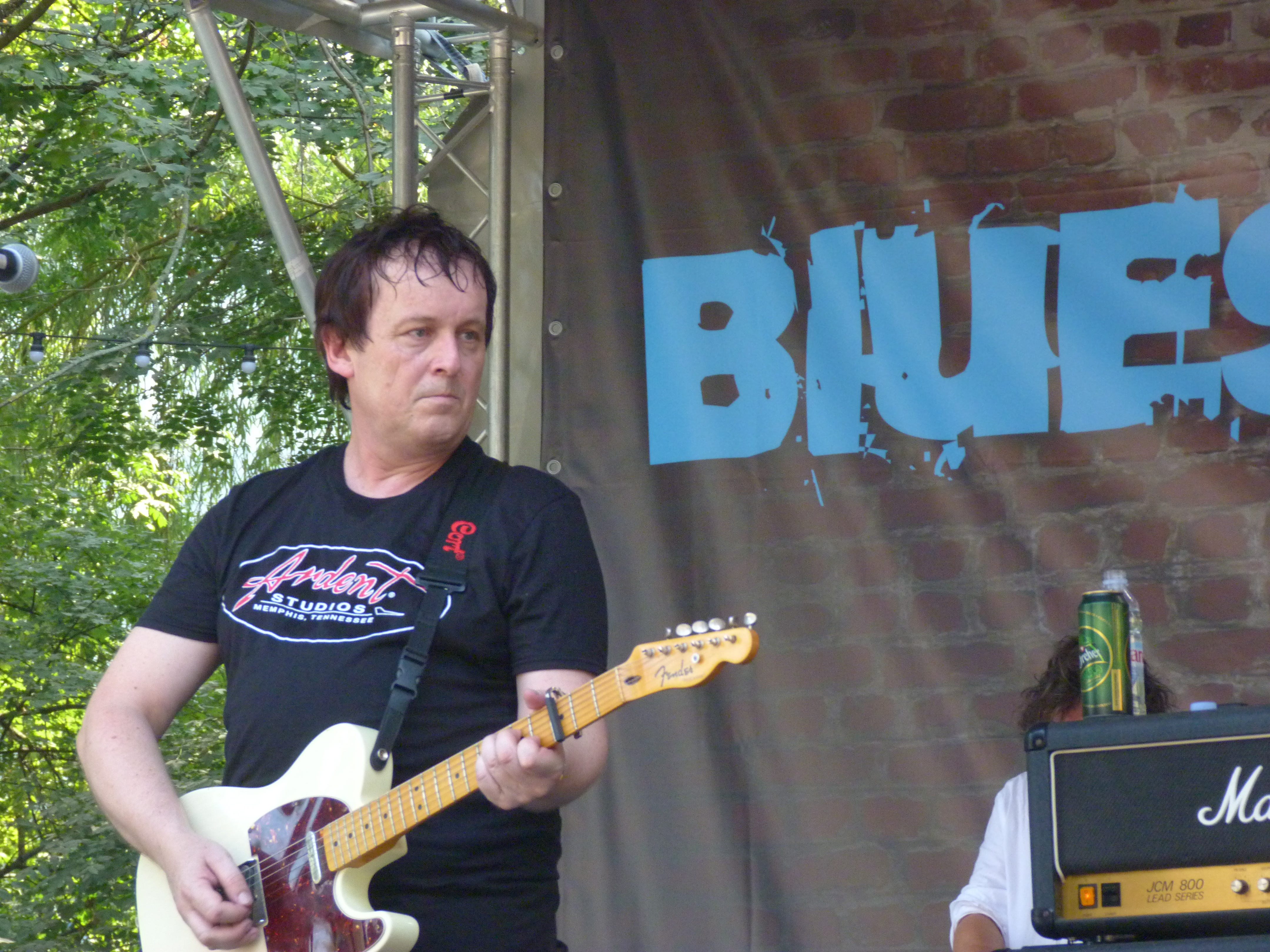 Live on the 15th of August, 2015. Sziget Festival, Budapest. Rebel Star band. Members: Milan Glavaski, Attila Prikler, Ashley Brees, Mike Kentish & Csaba Marinka. Tags: Sziget 2015 Indie Milan Glavaski, Attila Prikler, Ashley Brees, Mike Kentish Csaba Marinka 2015.08.15 Források: ©© Elekes Andor, Budapest, 2015 Creative Commons attribution 4.0 International (CC BY 4.0. These photos/images must be attributed to author Elekes Andor